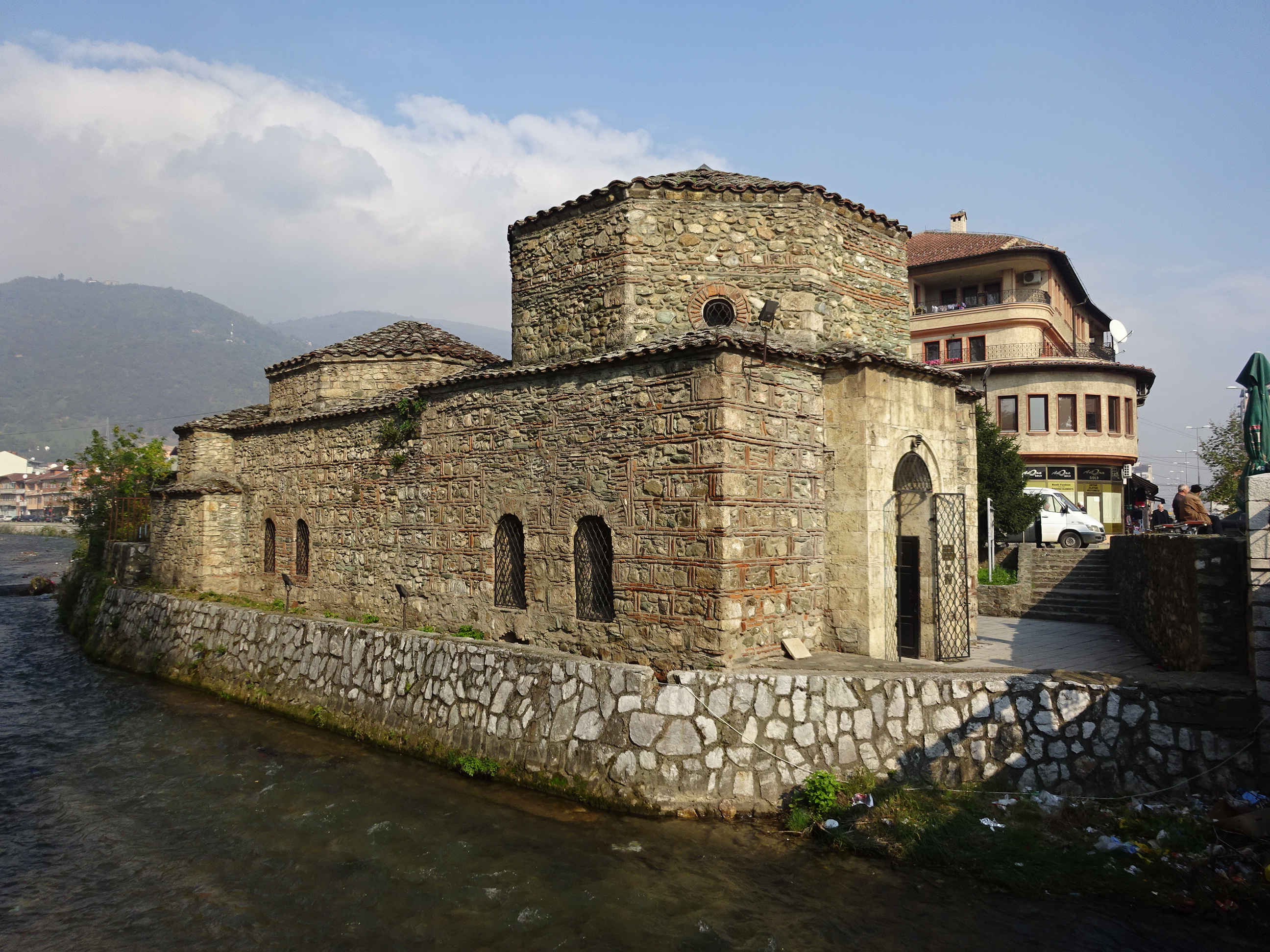 Old hamam in Tetovo, Macedonia Ова е фотографија на споменик на културата во Македонија со типски код: B05This is a a photo of a cultural monument in North Macedonia with type id: B05